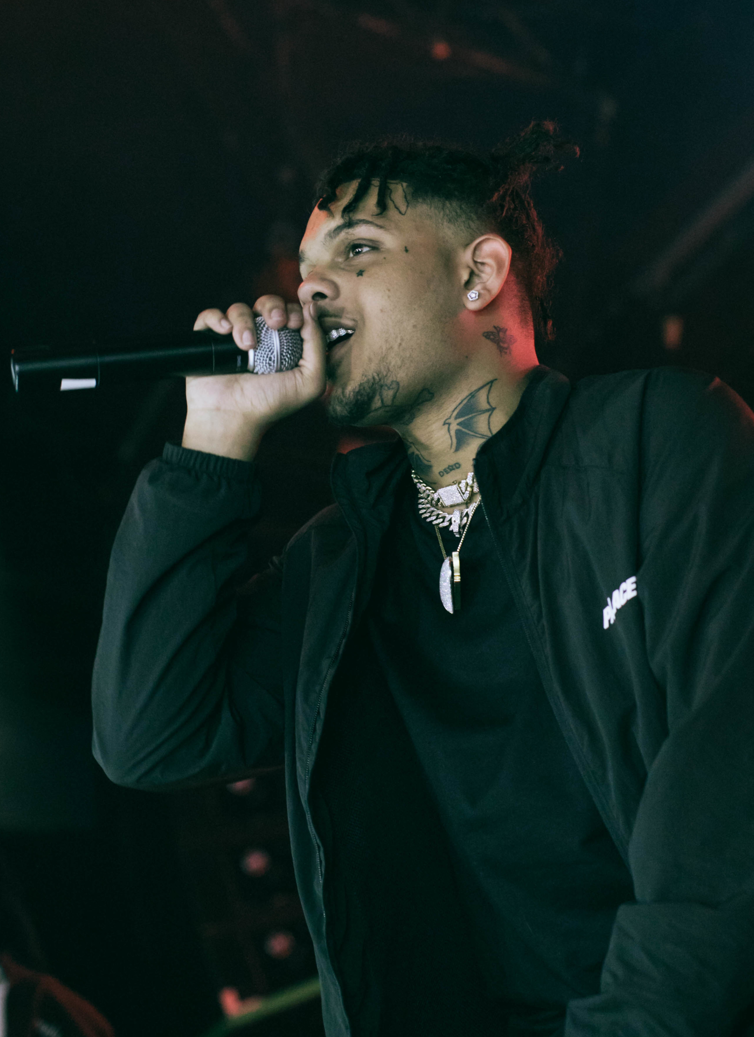 Shot in The Phoenix Concert Theatre May 1st, 2018 in Toronto. Photography by Curtis Huynh for The Come Up Show.